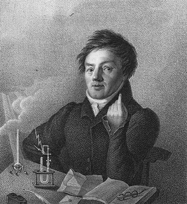 Engraving of a painting of Johann Wolfgang Döbereiner